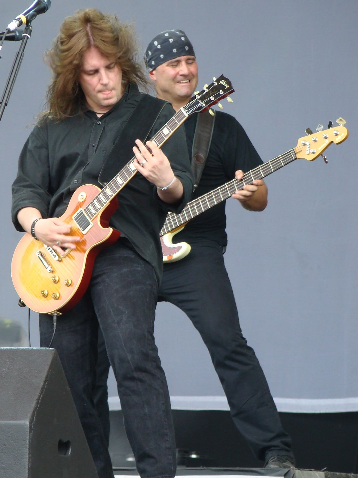 Marcus Siepen and Oliver Holzwarth of German Heavy metal band Blind Guardian